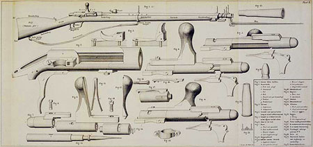 Drawing with parts of the Beaumont rifle, 1871/75. Collection of the Legermuseum Delft.